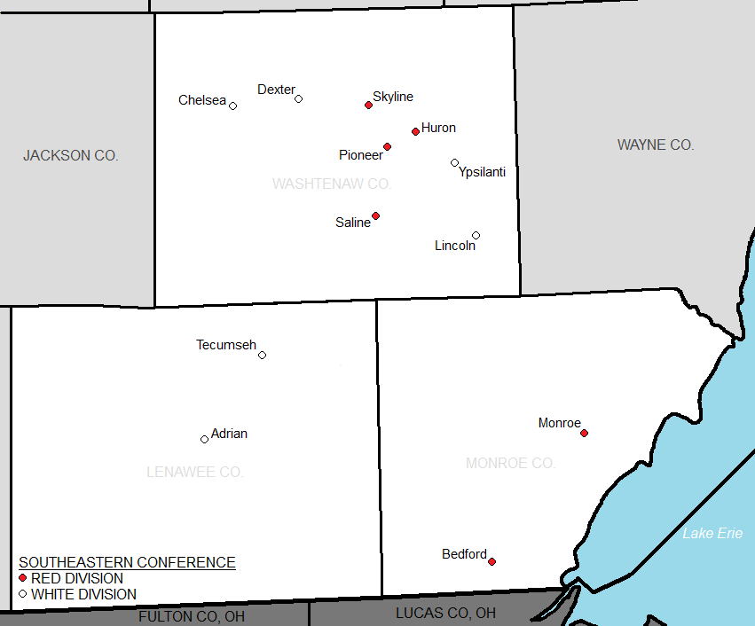 Map showing the members of the Southeastern Conference (MHSAA) based on divisional setup. Other information Map created by the US Census, school locations plotted by myself.